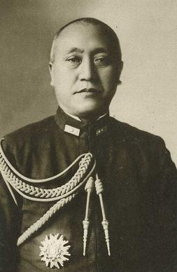 Nobutake Kondō is an Imperial Japanese Navy admiral.